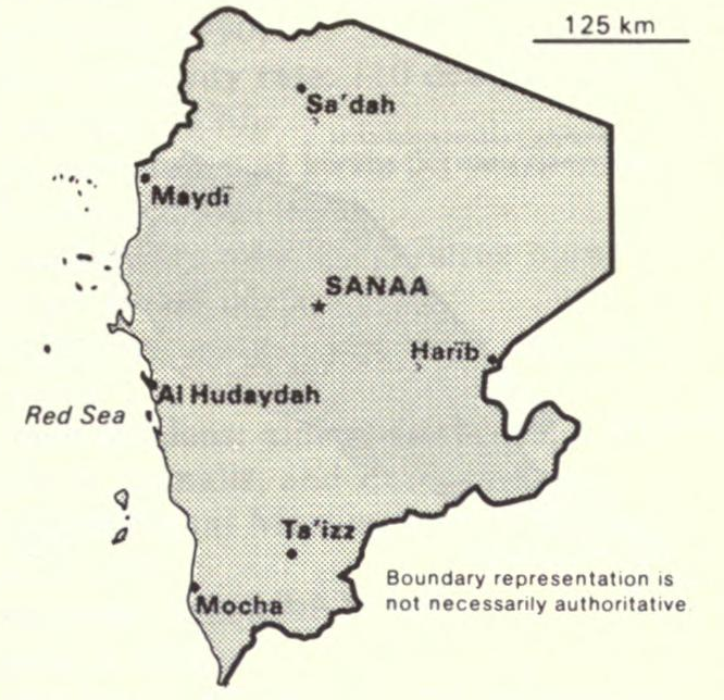 Map of North Yemen from the 1990 CIA World Factbook.